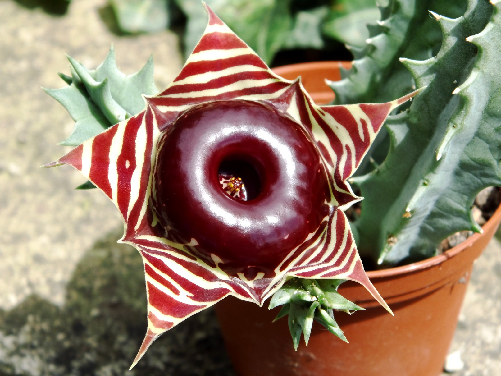 Huernia zebrina flower